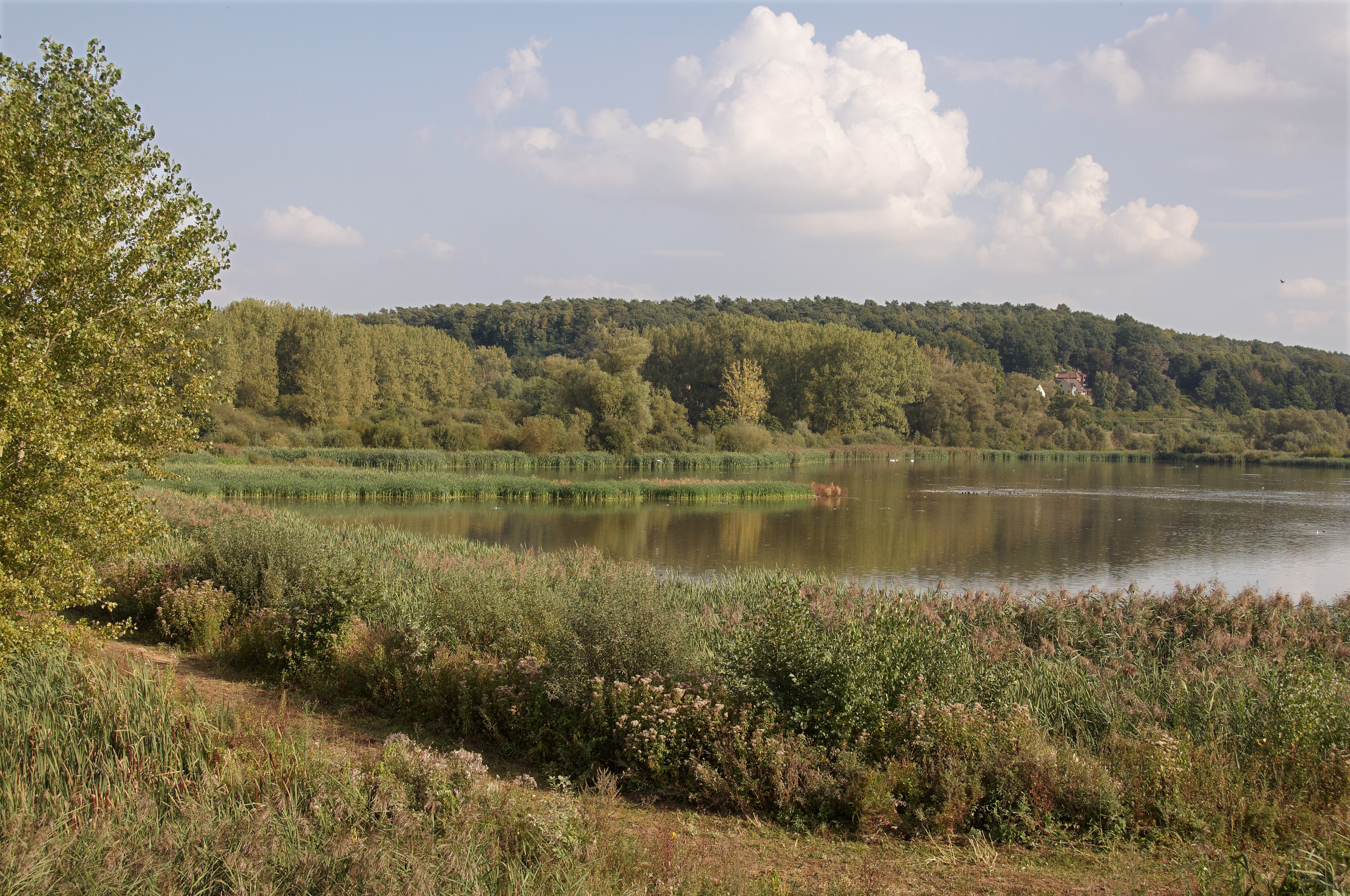 Nature reserve "Het Grootbroek" in Sint-Agatha-Rode, Belgium